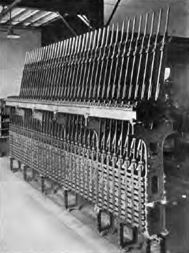 View of lever frame (UK) or interlocking machine (US). Style "A" manufactured by Saxby and Farmer